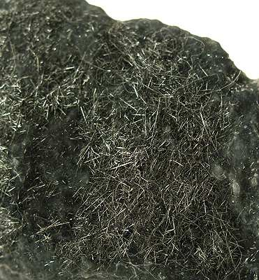 Dadsonite Locality: Saint-Pons, Ubaye valley, Alpes-de-Haute-Provence, Provence-Alpes-Côte d'Azur, France (Locality at ) Size: 3.8 x 2.3 x 1.7 cm. A rich specimen of this extremely rare lead/antimony sulfide which also contains chlorine in it. The surface is covered with acicular crystals, and the whole piece is probably massive dadsonite as well. Ex. Eric Asselborn and Alain Martaud Collections.